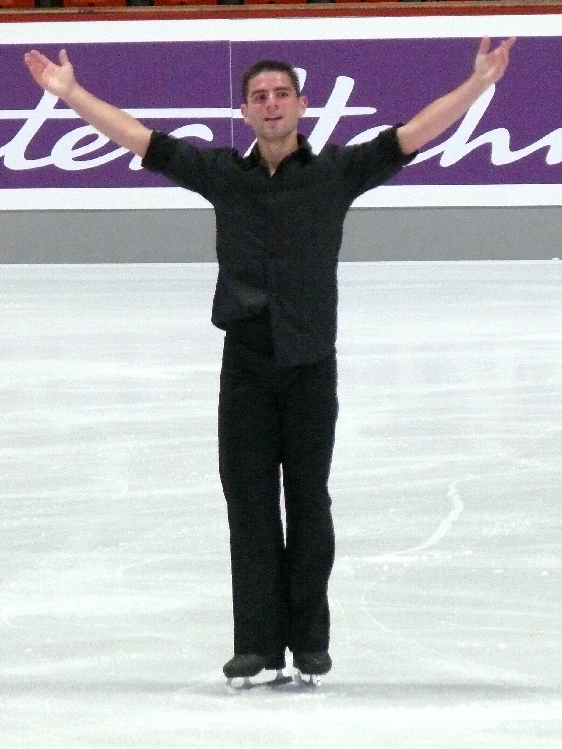 Yannick Ponsero (FRA) at his free program at the Nebelhorntrophy 2008 in Oberstdorf, Germany